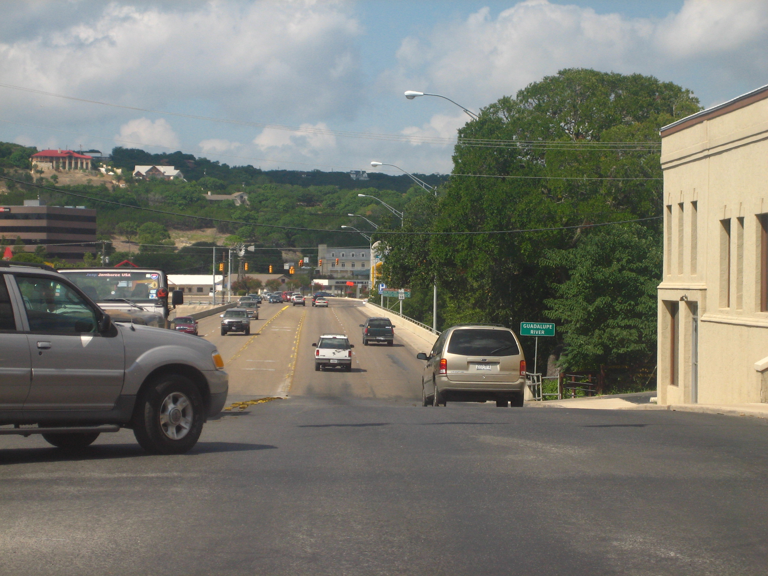 I took photo in July 2008.